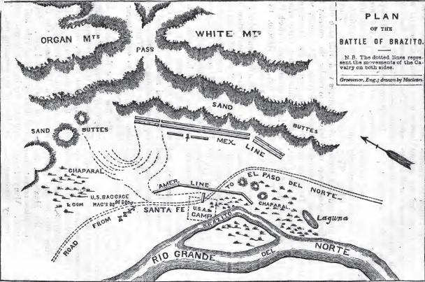 ElBrazito Doniphan map